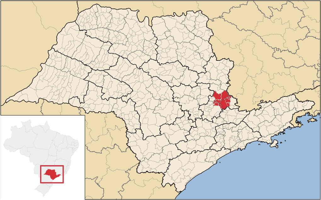 Roman Catholic Diocese of Amparo, Brazil